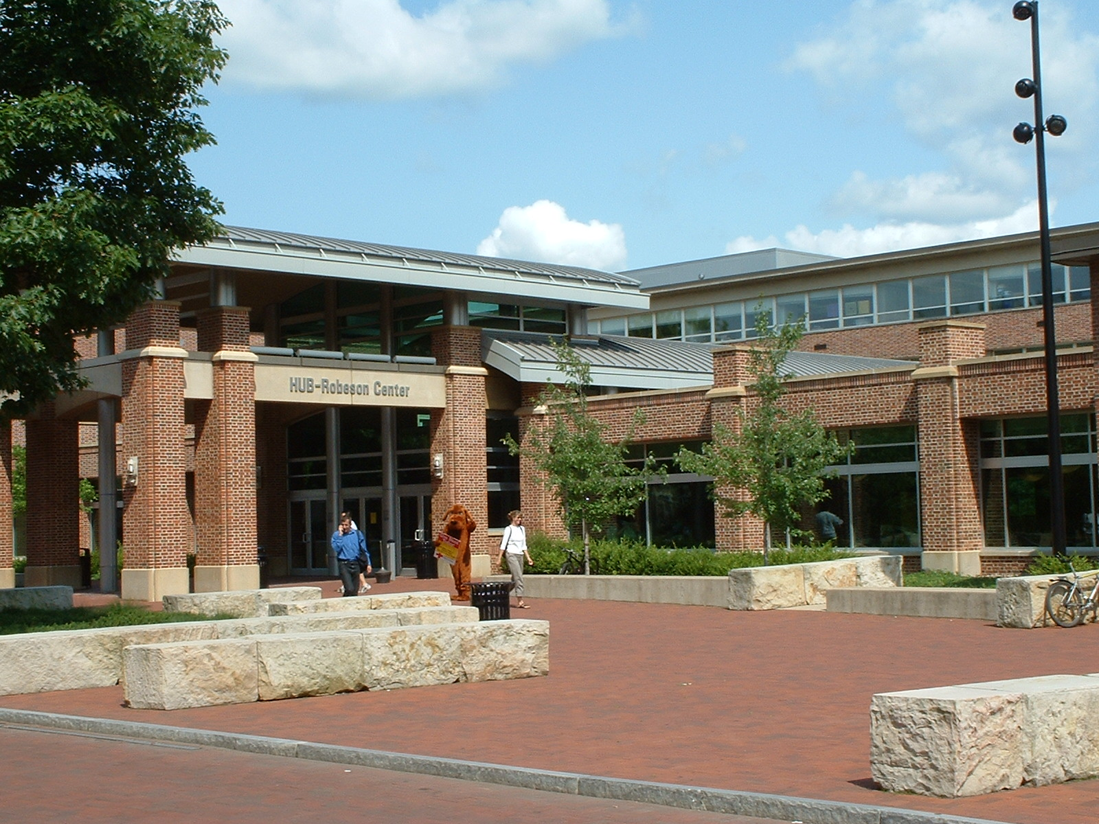 Exterior of the Hetzel Union Building at Penn State University, University Park, Pennsylvania.